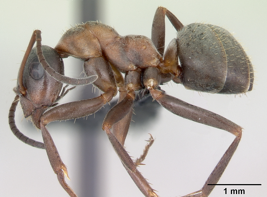 Profile view of ant Formica rufibarbis specimen casent0173870.